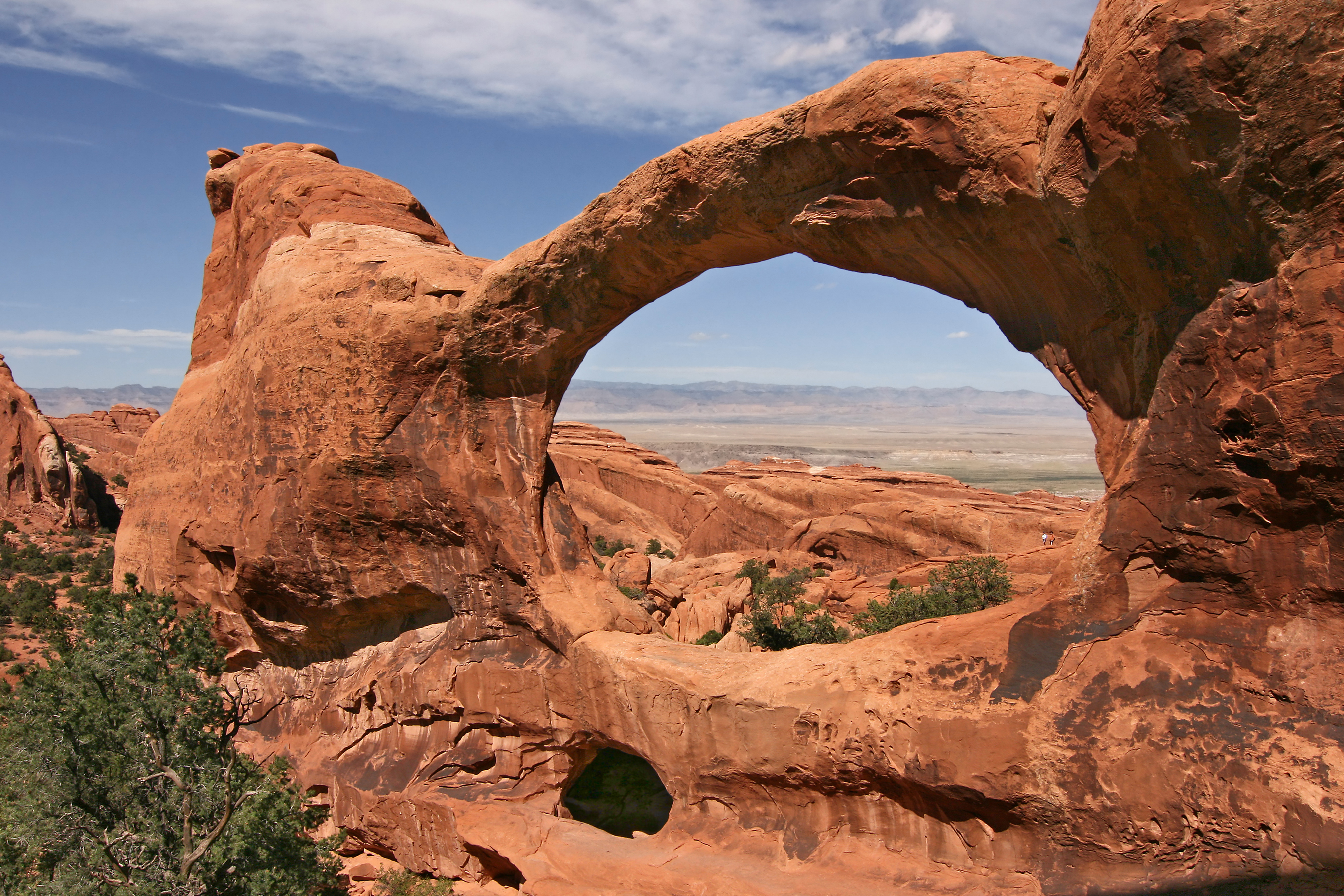 Double-O-Arch in Arches National Park in Southwestern USA